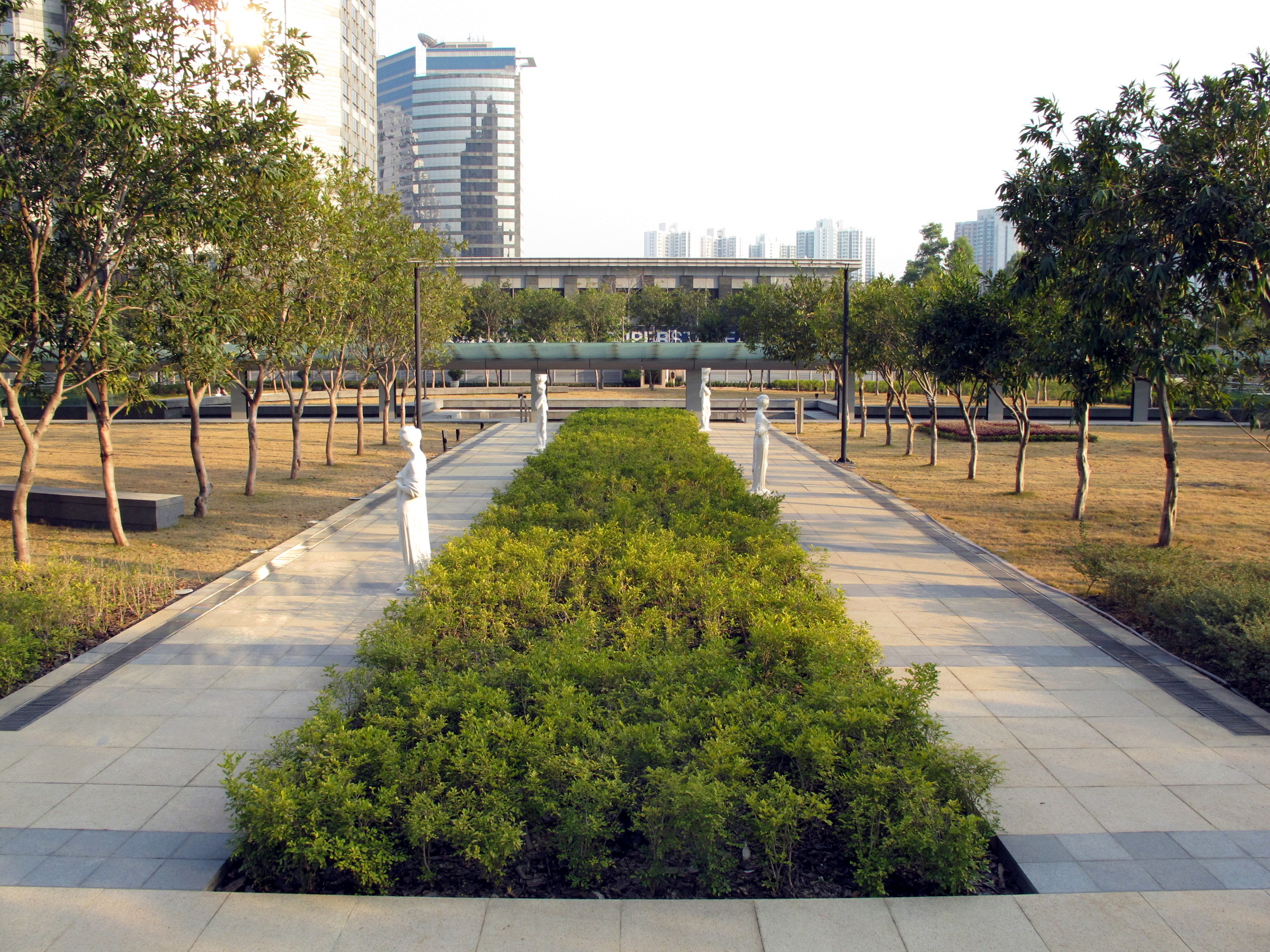 Central Park Towers Public Open Space